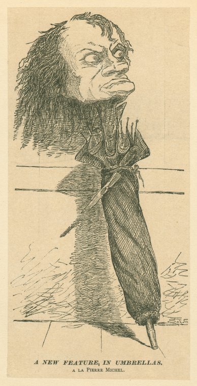 French anarchist Louise Michel newspaper caricature